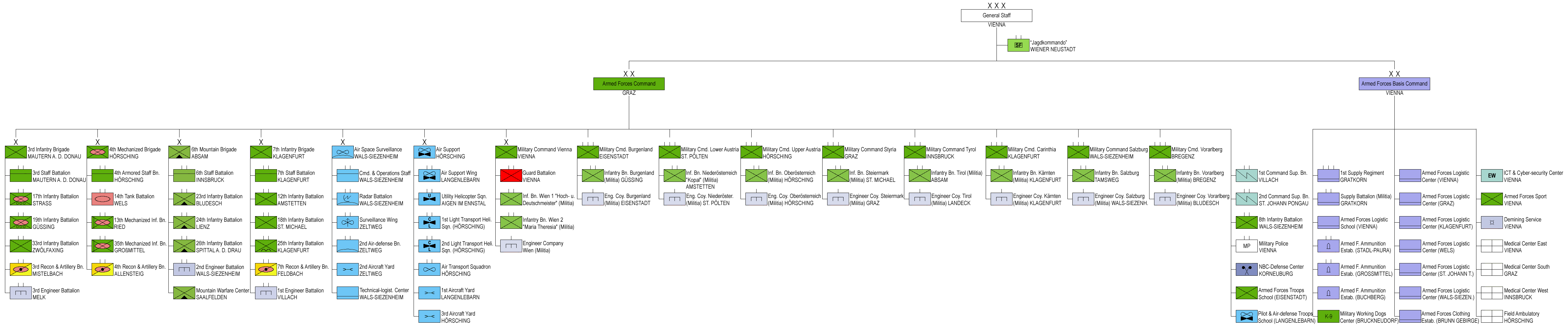 Structure of the Austrian Armed Forces since April 2019